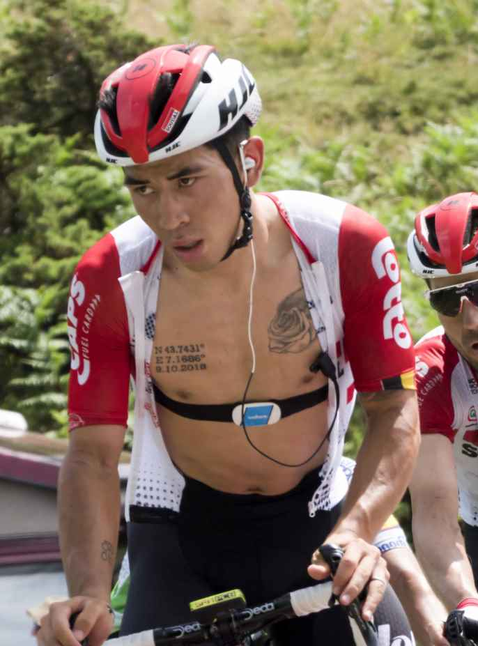 PY104225 ewan montfort